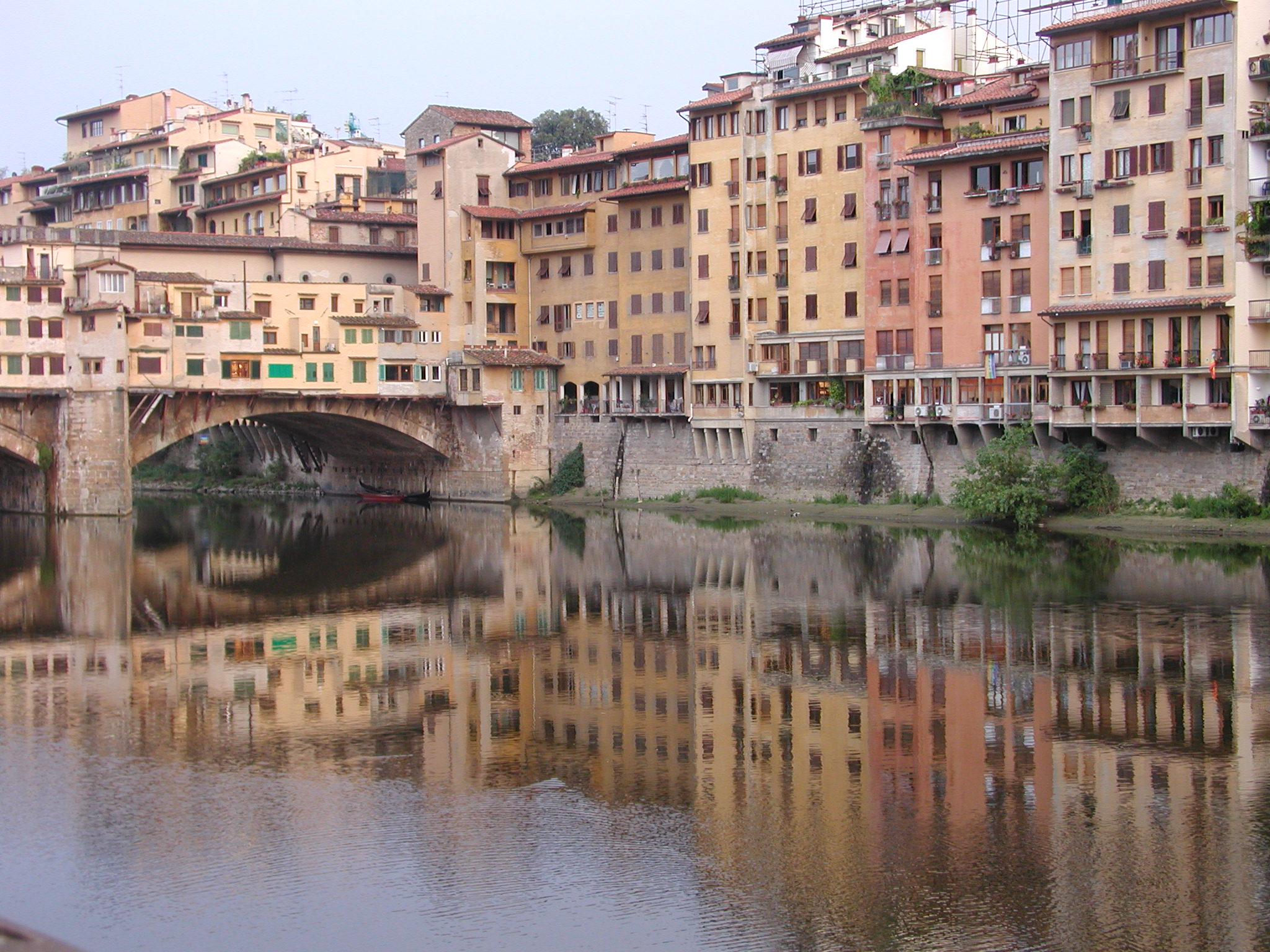 Florence reflected in the river